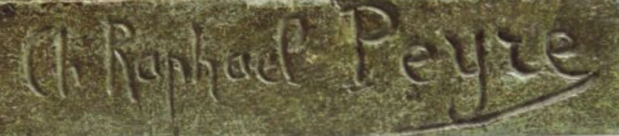 Signature of French sculptor Raphaël Charles Peyre ((1872—1949))